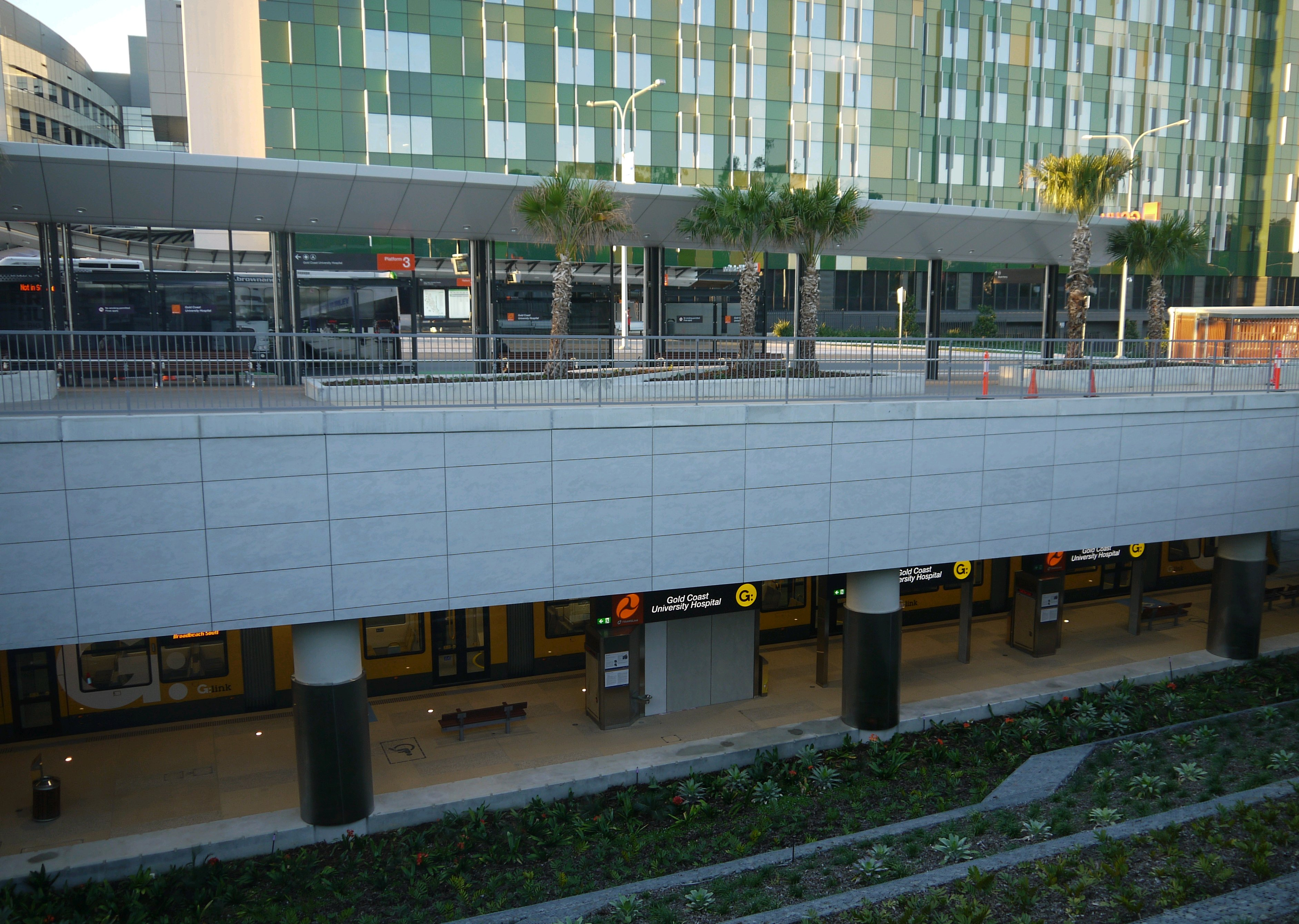 Gold Coast Light Rail - GCUH Station - Bus station above, tram lurking underneath.